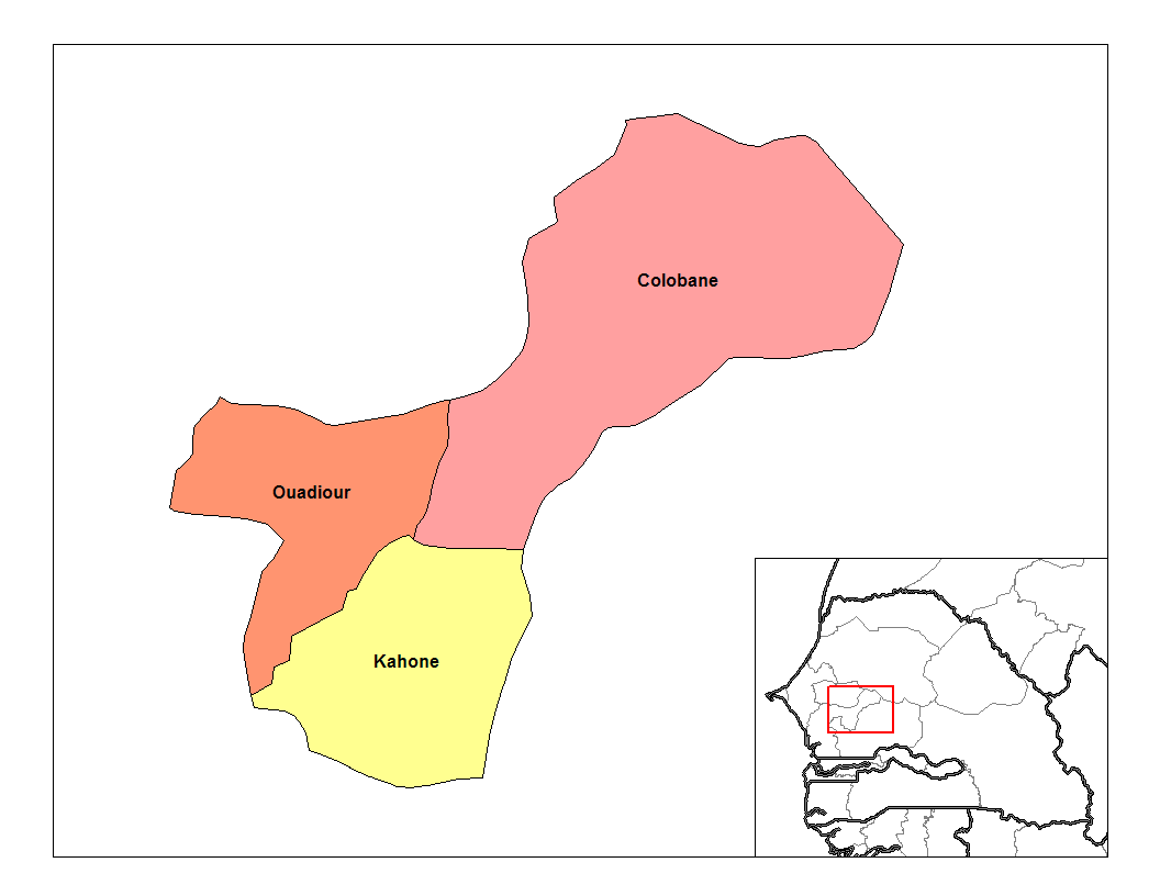 Map of the arrondissements of Gossas department in Senegal.